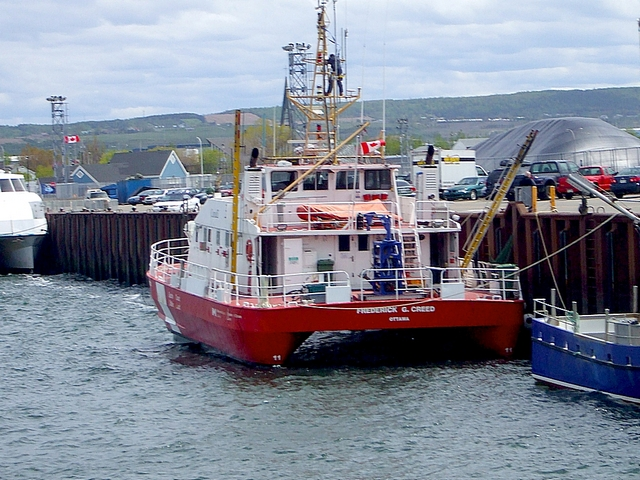 CCGS Frederick G. Creed landing to Rimouski harbour, summer 2009.